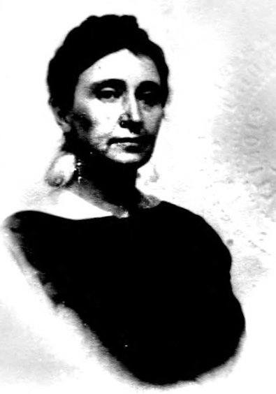 Passport photo of Lola Maverick Lloyd in 1915, before the Woman's Congress for Peace and Freedom at The Hague, Netherlands. Although the Flickr uploader claims copyright, as a 1915 document published in the United States, its copyright has expired.